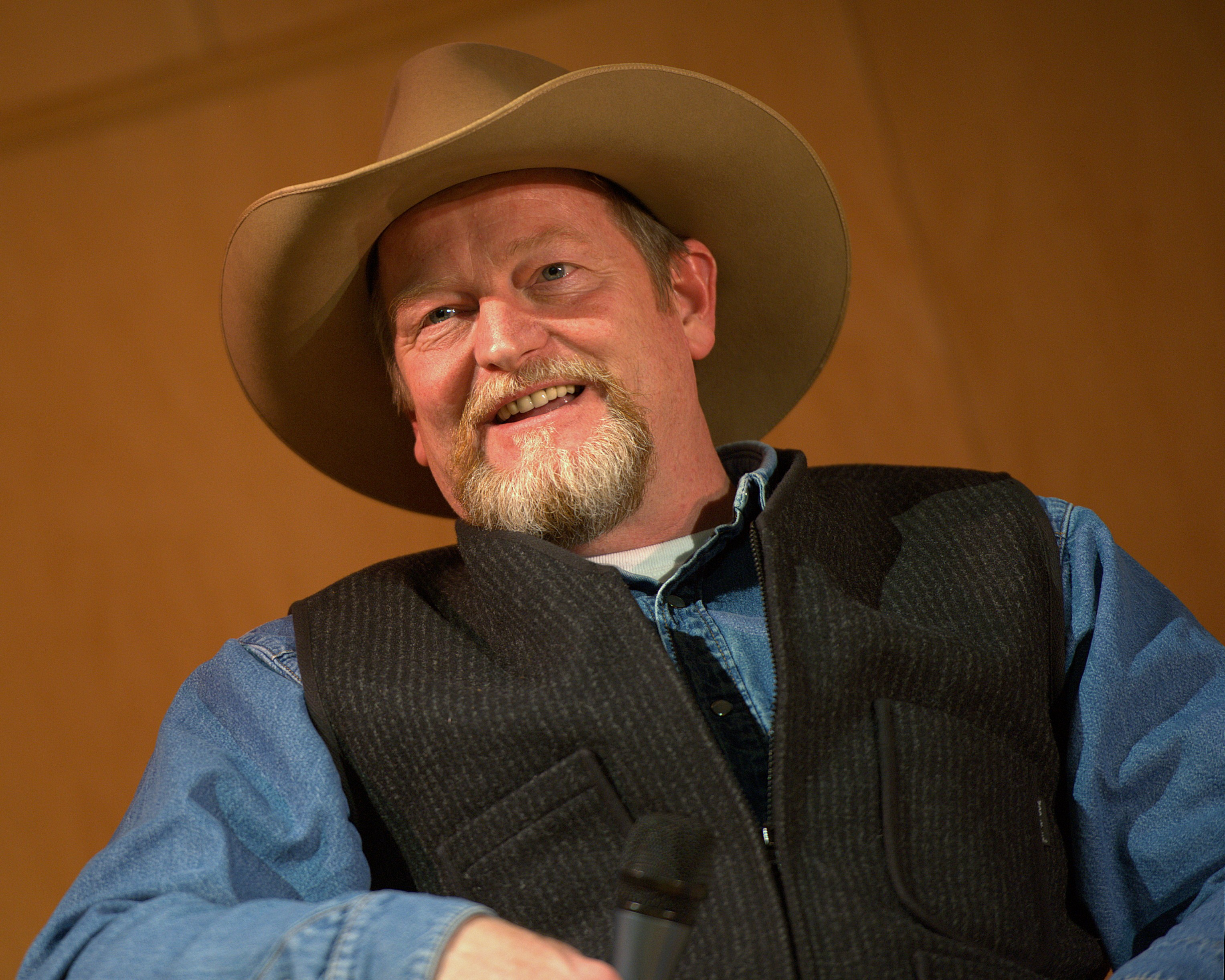 American novelist Craig Johnson speaking about his latest books in Médiathèque José Cabanis, Toulouse, France.